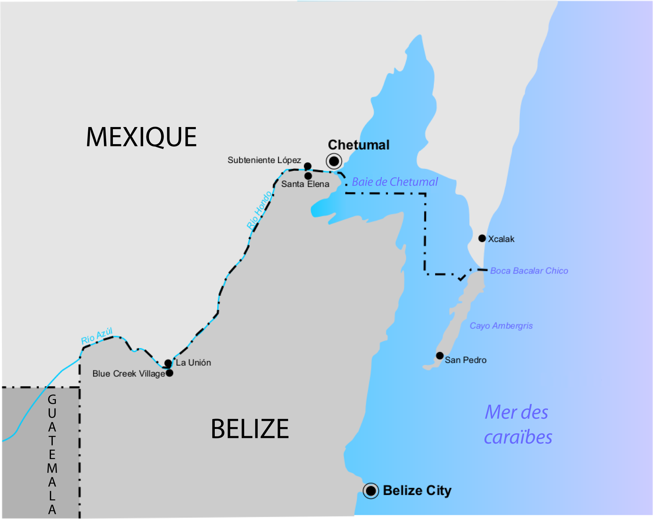 translation in french of a map of the mexico-belize border